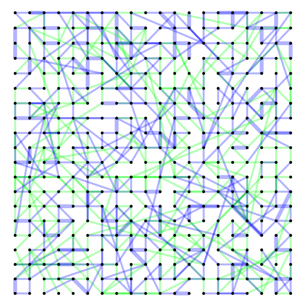 Spatially embedded multiplex networks